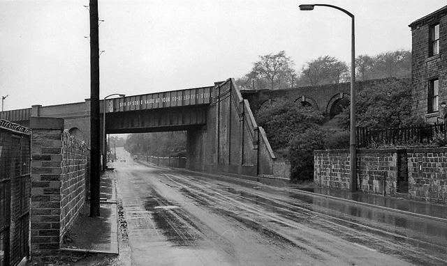 Site of Battyeford Station. Station had been up to right. View NW on A644 of bridge carrying ex-LNW 'Leeds New Line' (Spen Valley Junction - Franley Junction): Spen Valley Junction and Huddersfield to left, Farnley Junction and Leeds (City) to right. Station closed and local passenger services ceased 5/10/53, goods 2/8/65, through services continued until 11/1/66 when connection put in with ex-L&Y line at Heckmondwike.